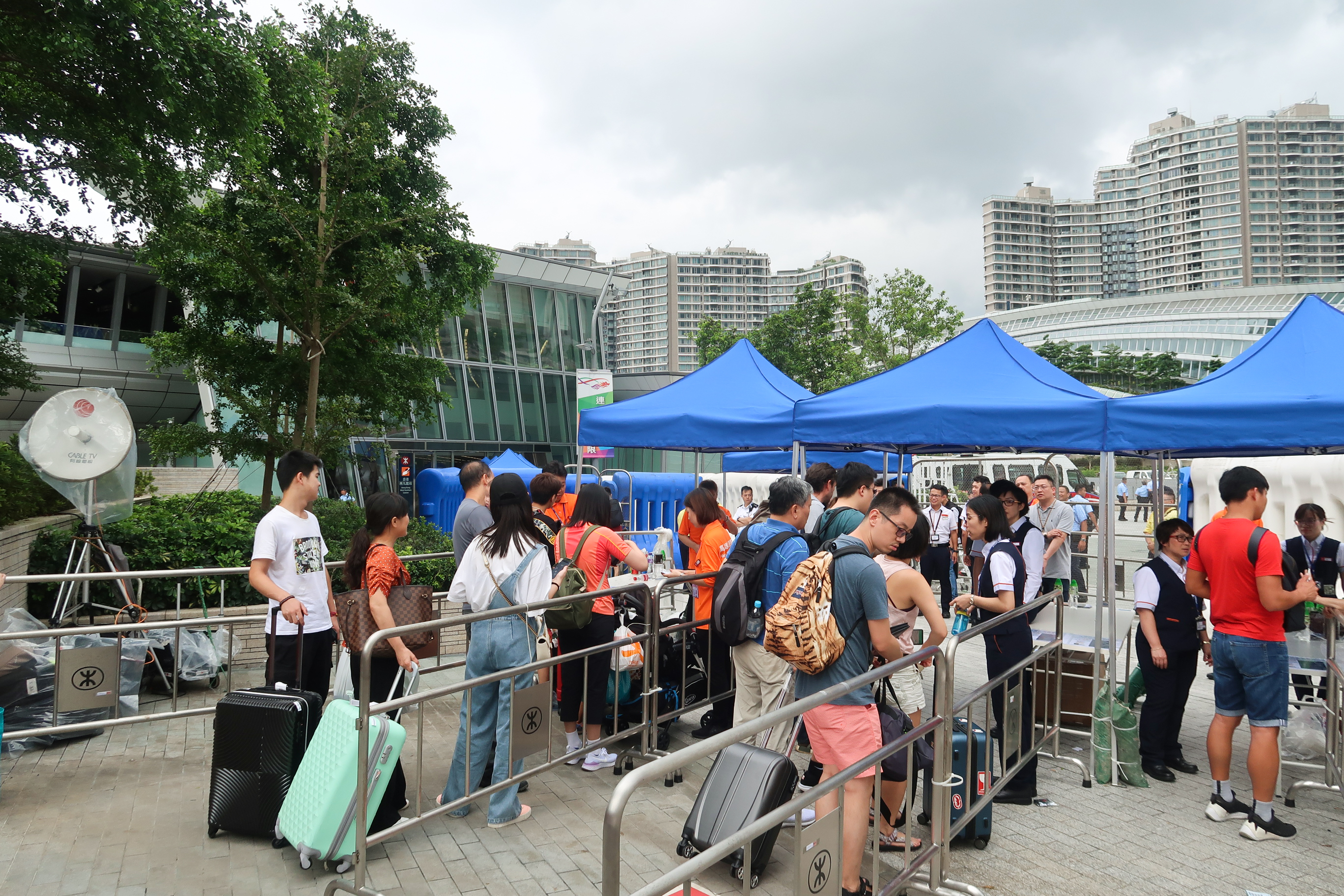 West Kowloon Station Ticket check-in at outside